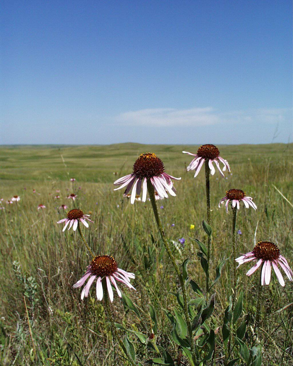 Credit: Rick Bohn